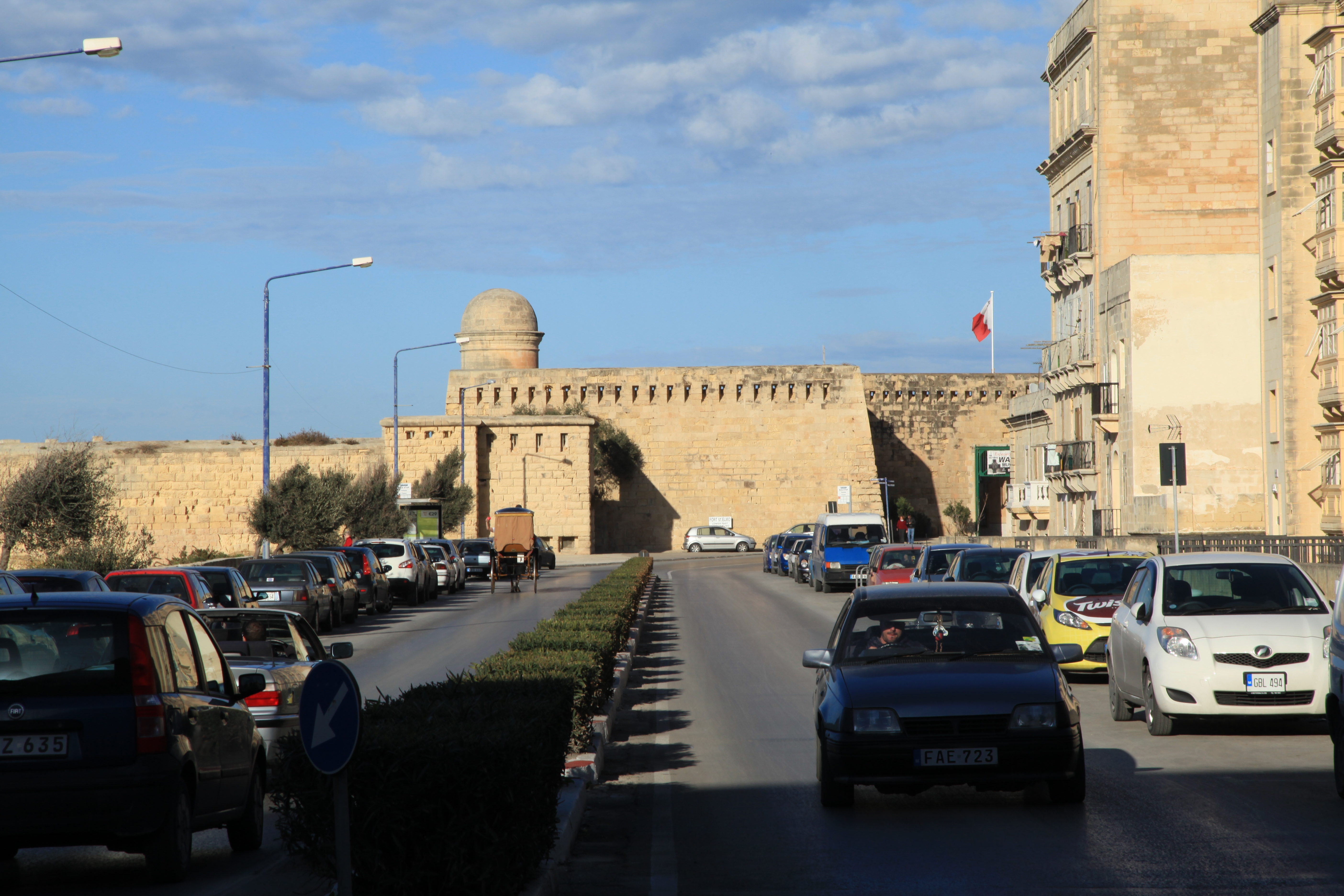 Misraħ Sant' Iermu with Fort Saint Elmo in Valletta, Malta